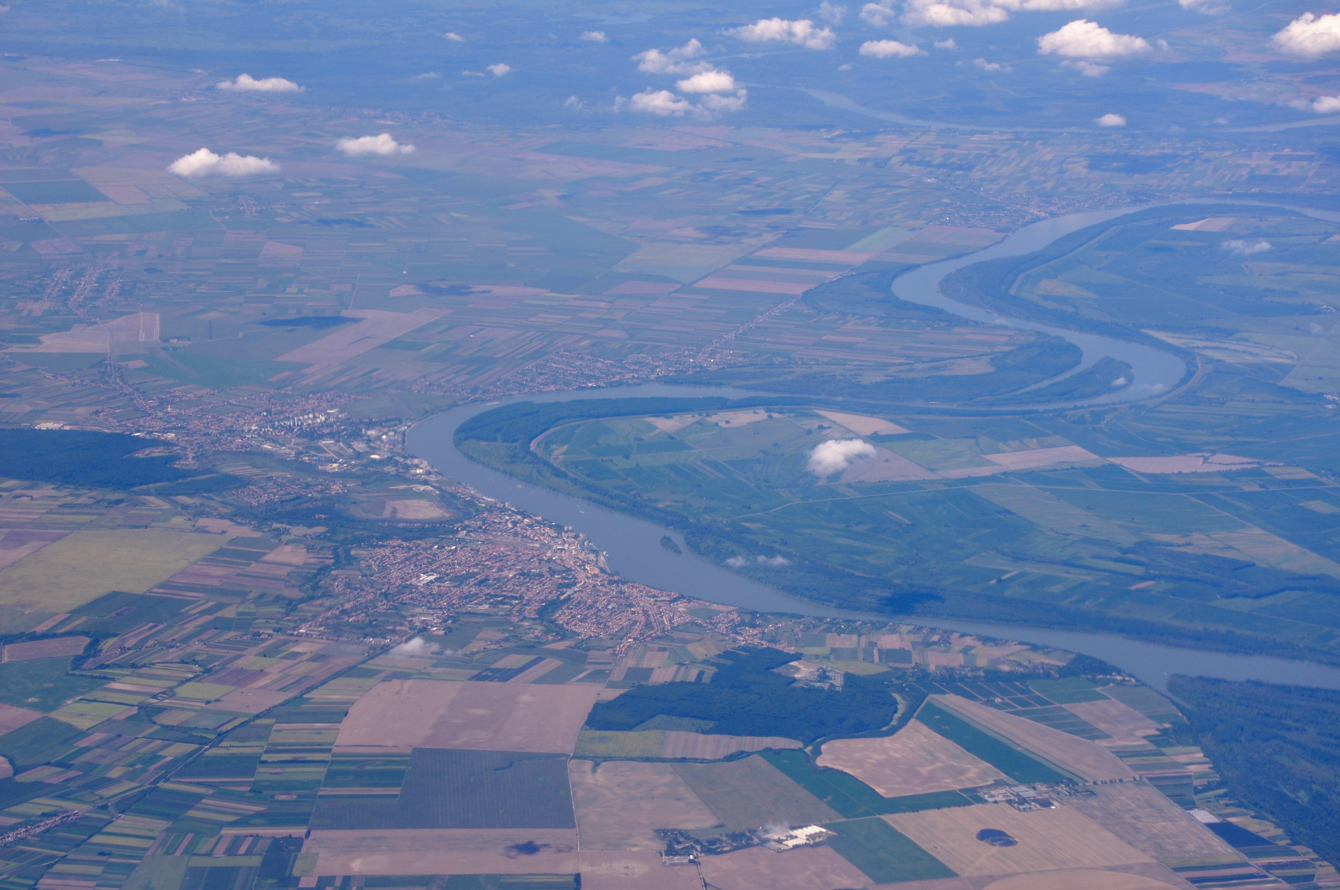 Serbia, aerial photograph after take-off in Belgrade.